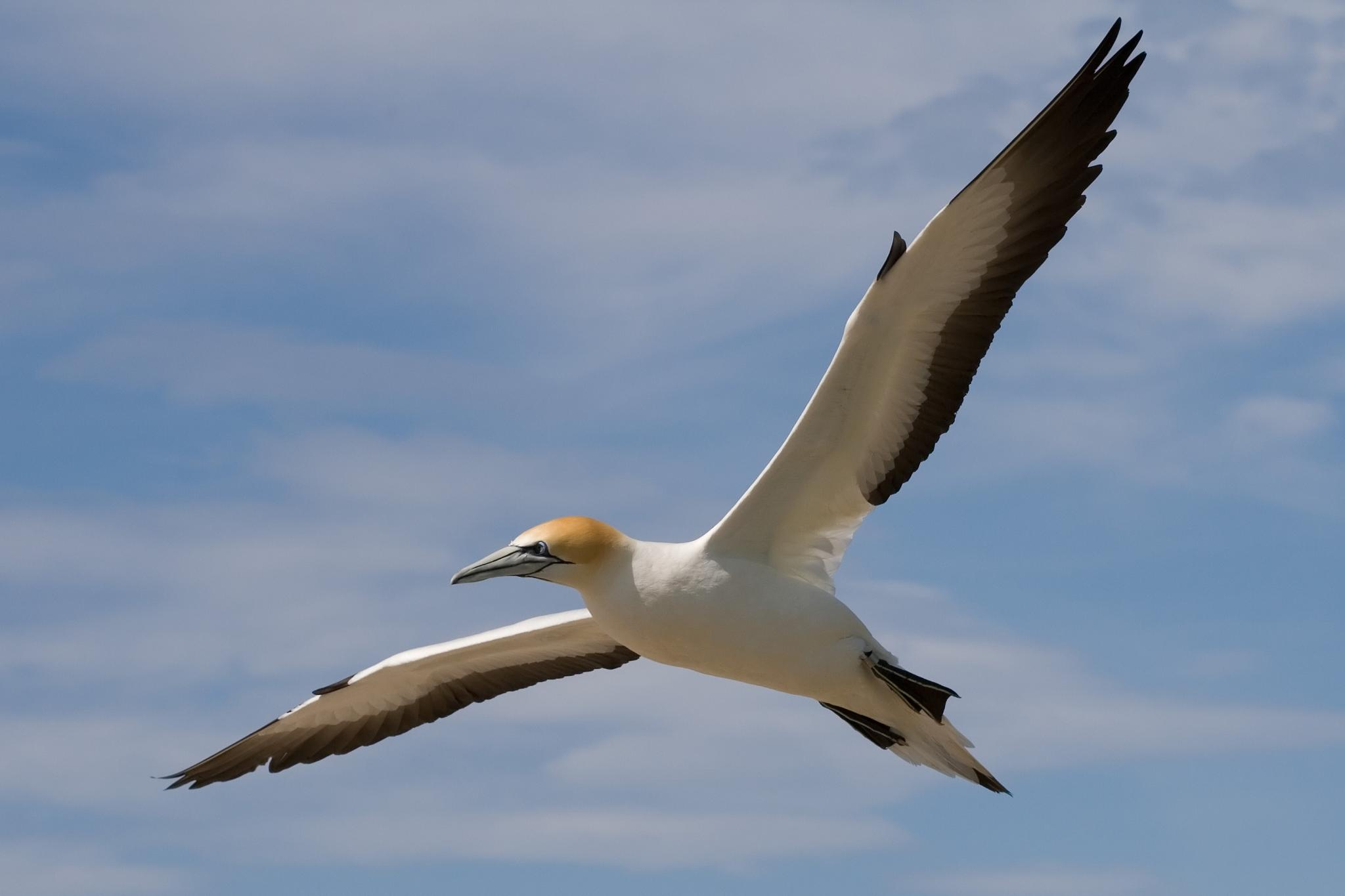 Australasian Gannet flying in New Zealand.